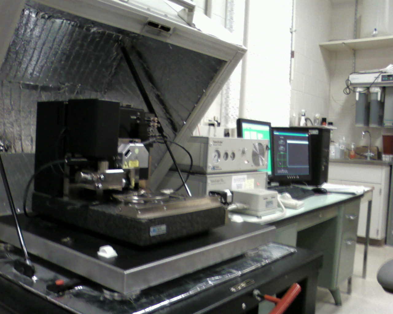 Dimension 3100 at the University of Illinois U-C Center for Microanalysis of Materials